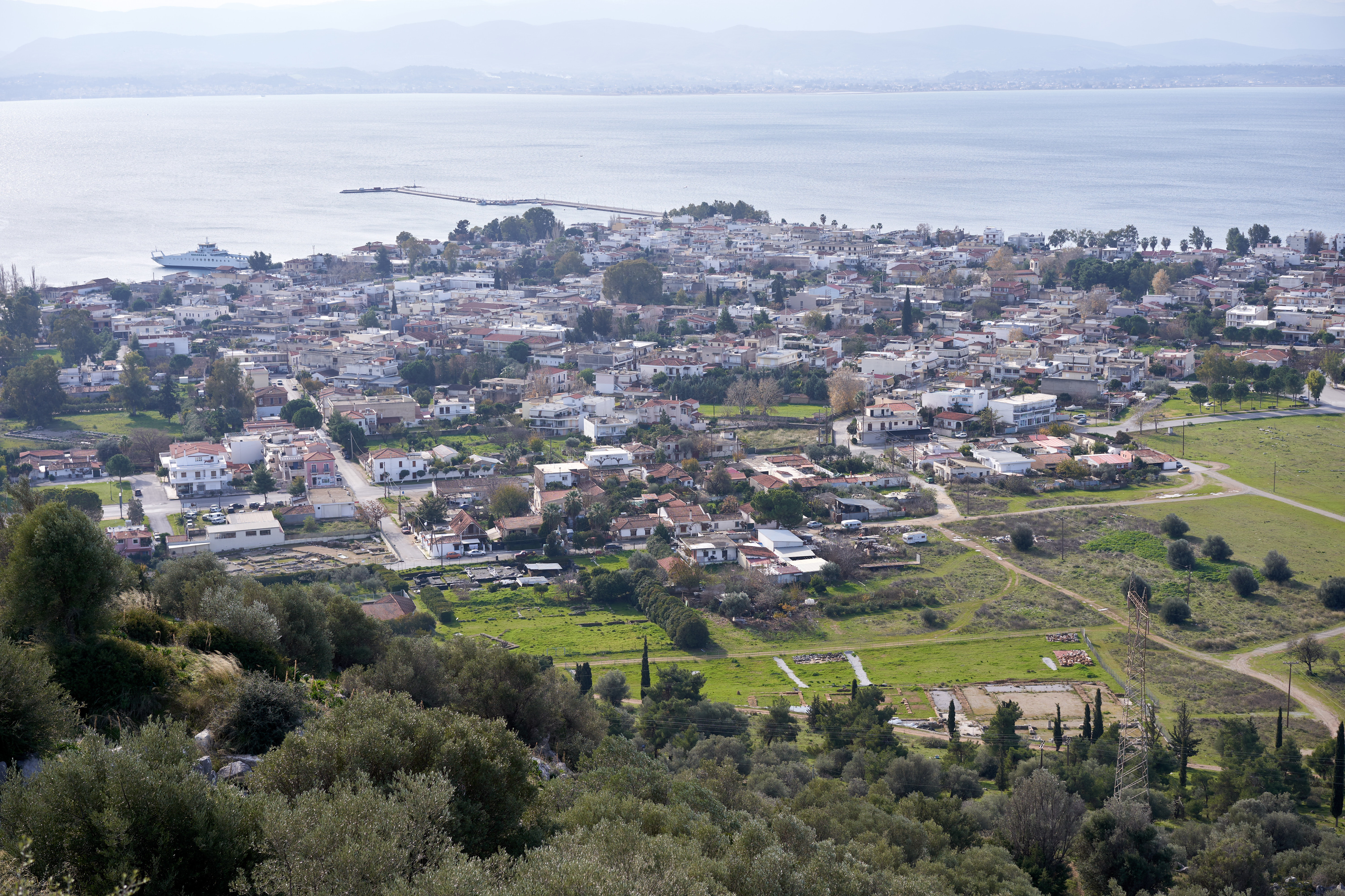 The town of Eretria from the ancient citadel on January 16, 2020.